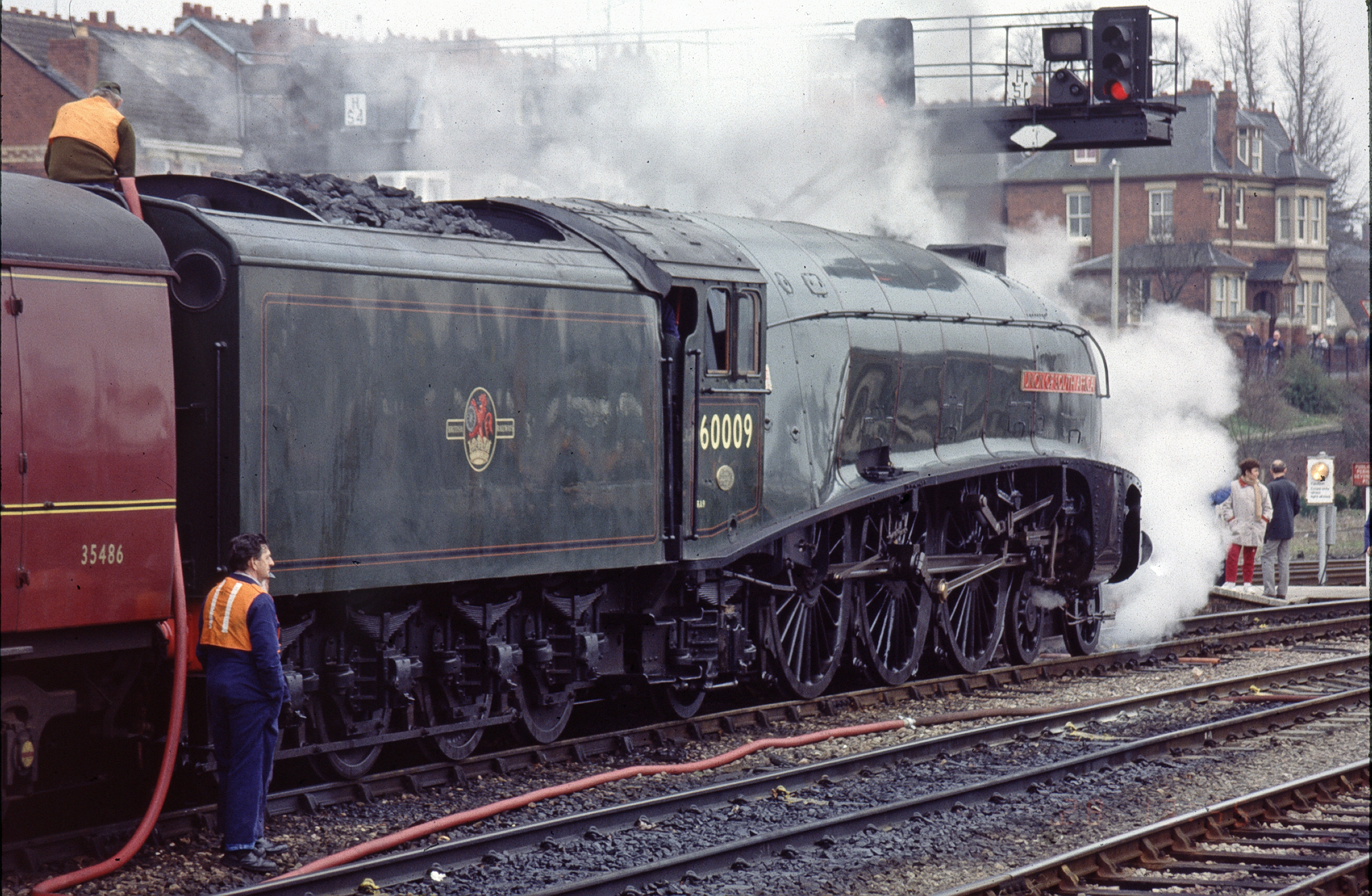 Union of South Africa loco 9 A scan from an old 80s slide.